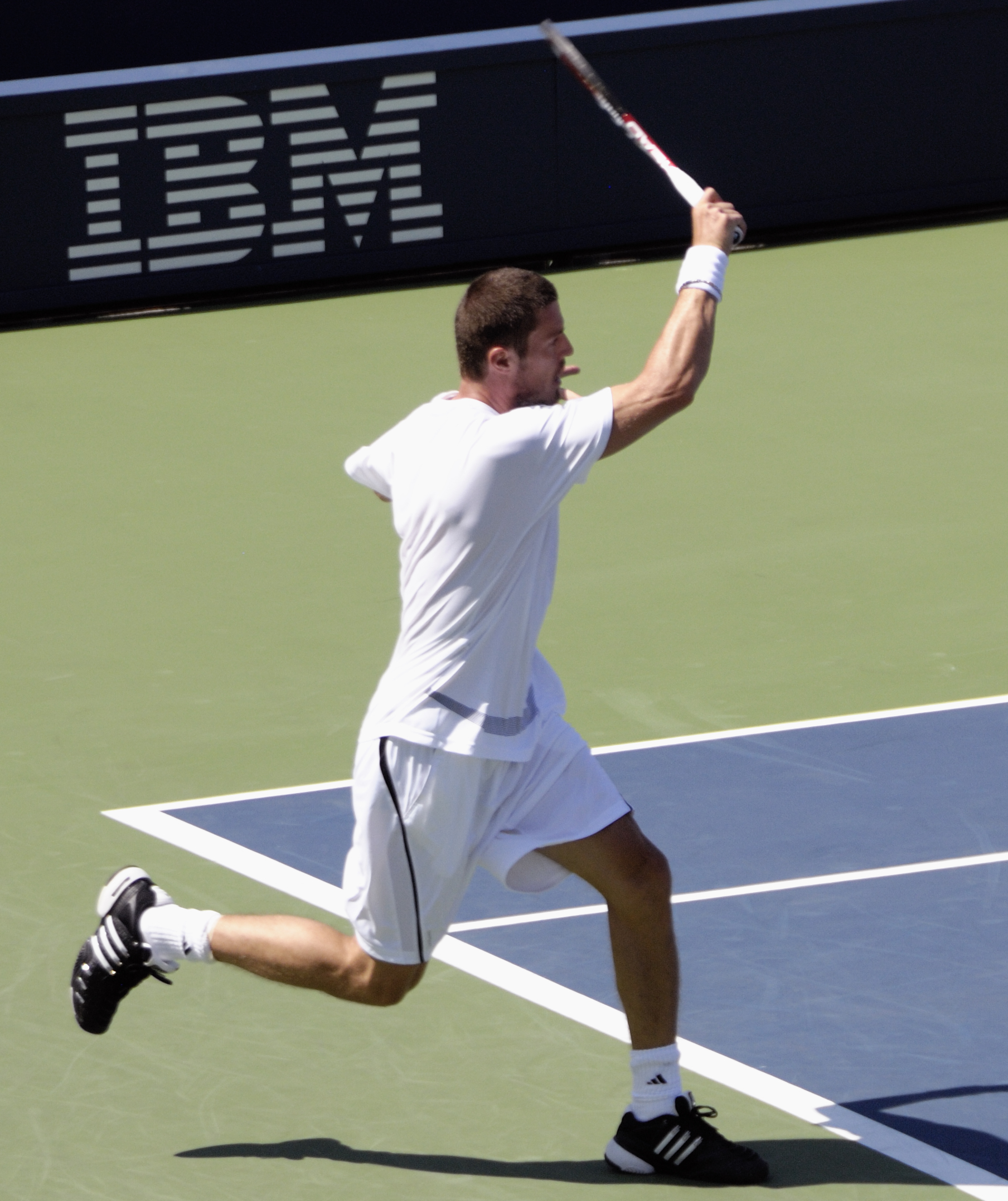 marat follow thru